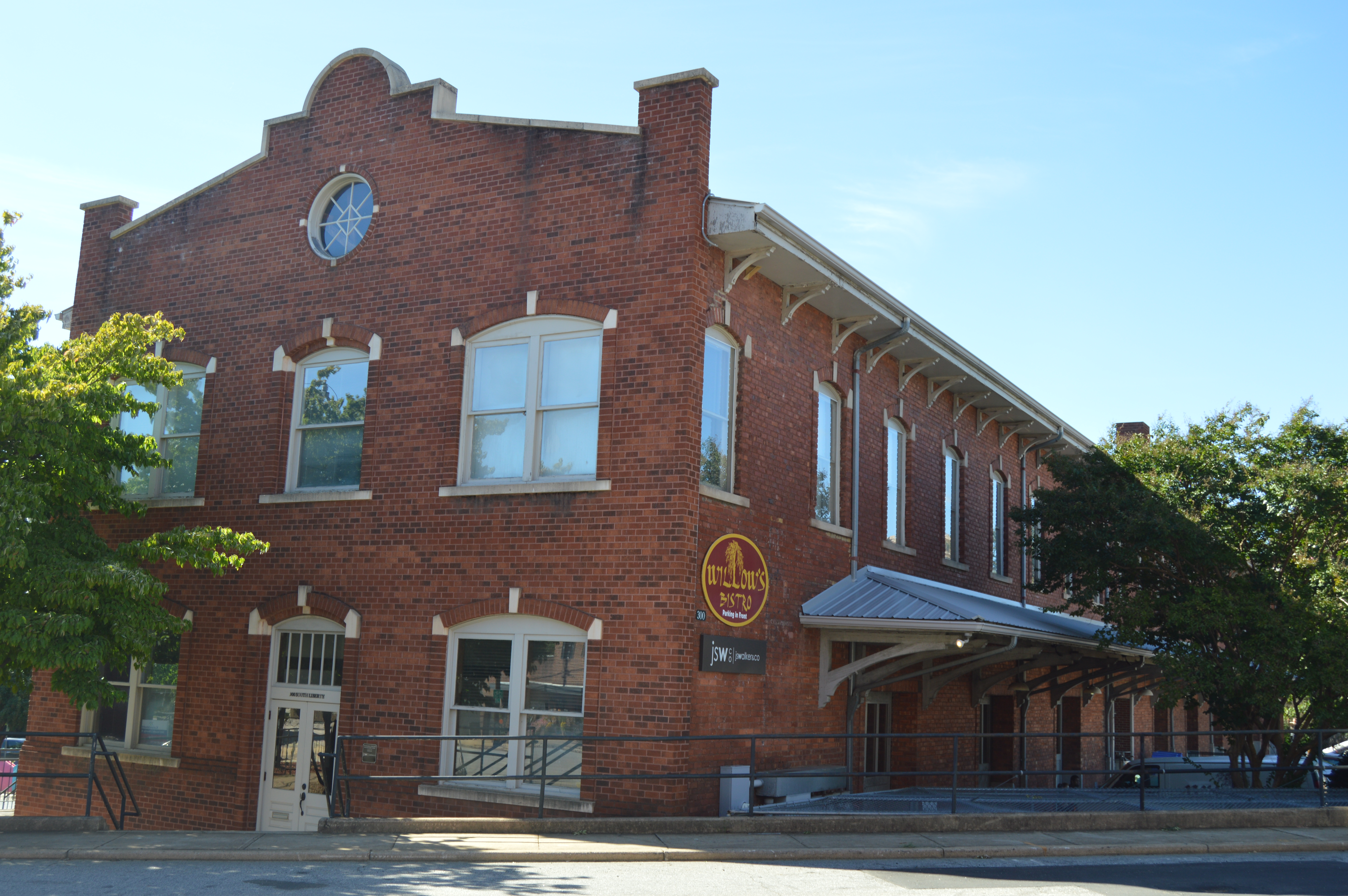 Front and northern side of the Winston-Salem Southbound Railway Freight Warehouse and Office, located at 300 S. Liberty Street in Winston-Salem, North Carolina, United States. Built in 1913, it is listed on the National Register of Historic Places.